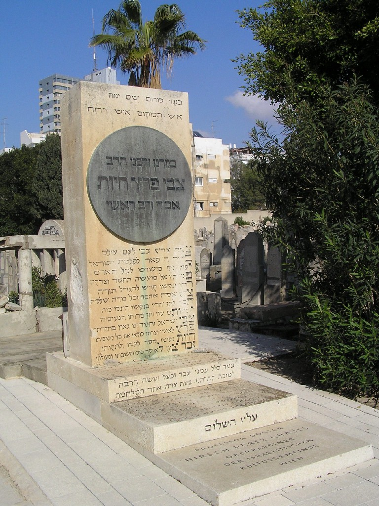 Tomb fo Zvi Perez Hauit in Trumpeldor cemetery in Tel Aviv photographed by Eman, February 2006